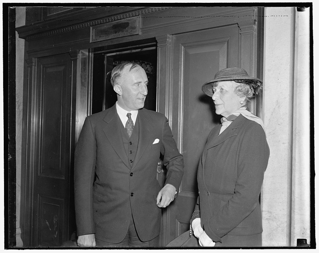 The Norwegian minister at Washington, DC, Wilhelm Morgenstierne, and the US minister to Norway, Florence Jaffray Harriman.